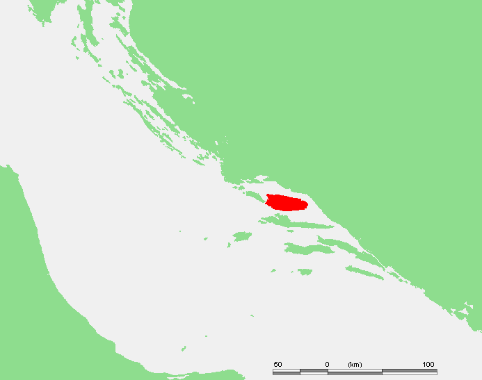 Island of Croatia - Croatia - Brac.PNG